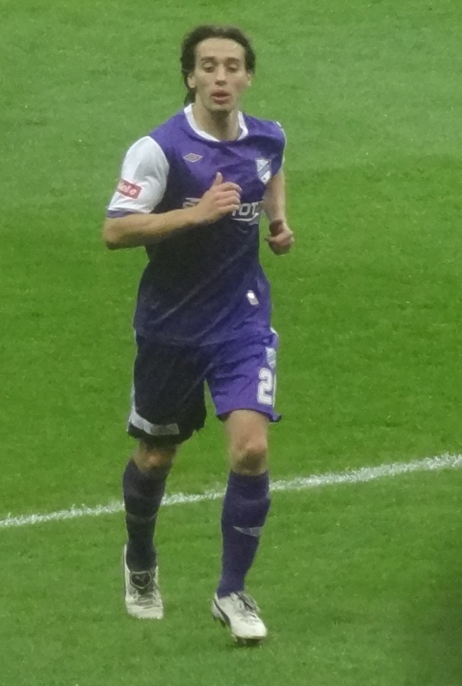 Javito